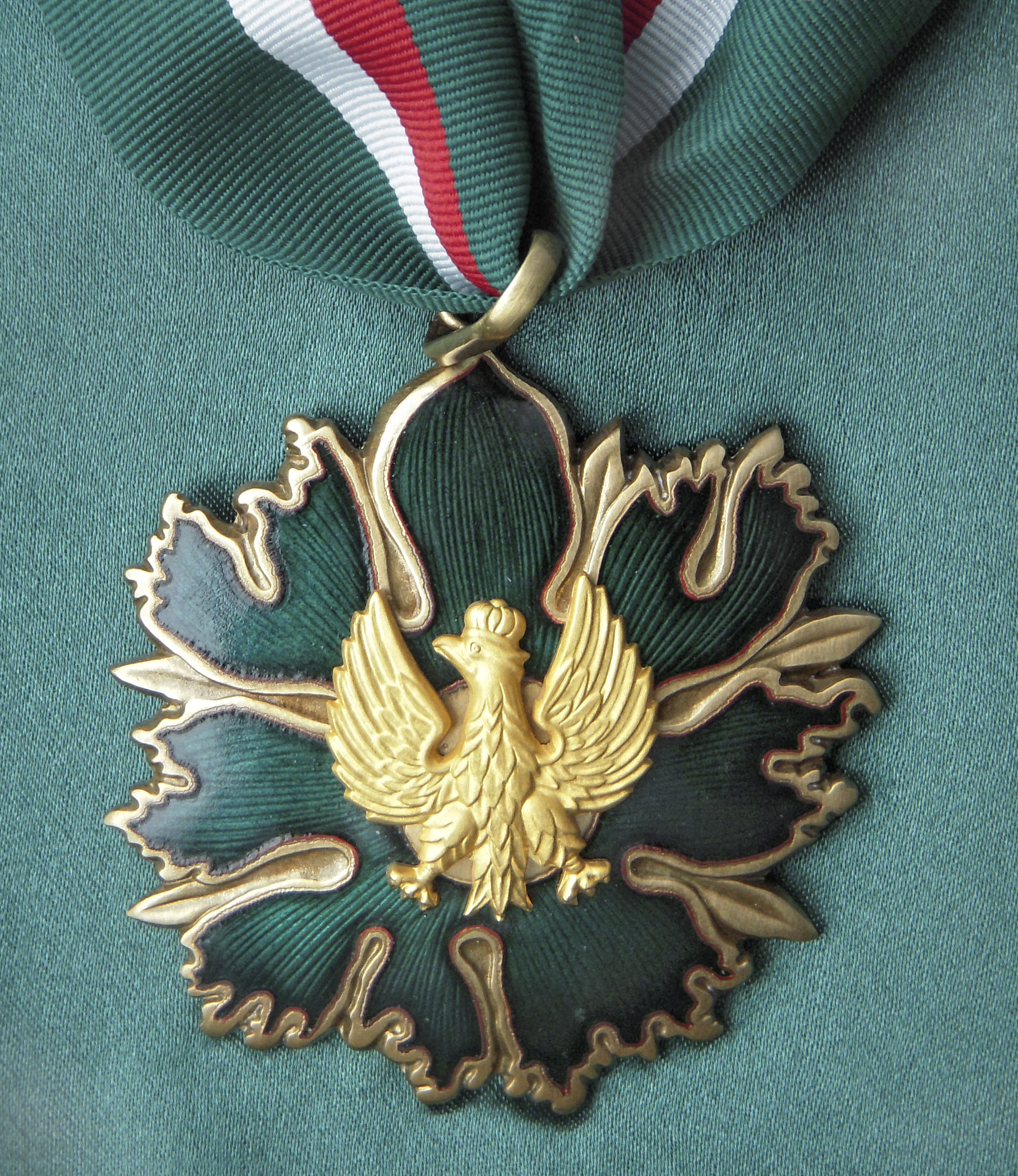 Gold Medal of Gloria Artis (Poland, given by Minister of Culture)